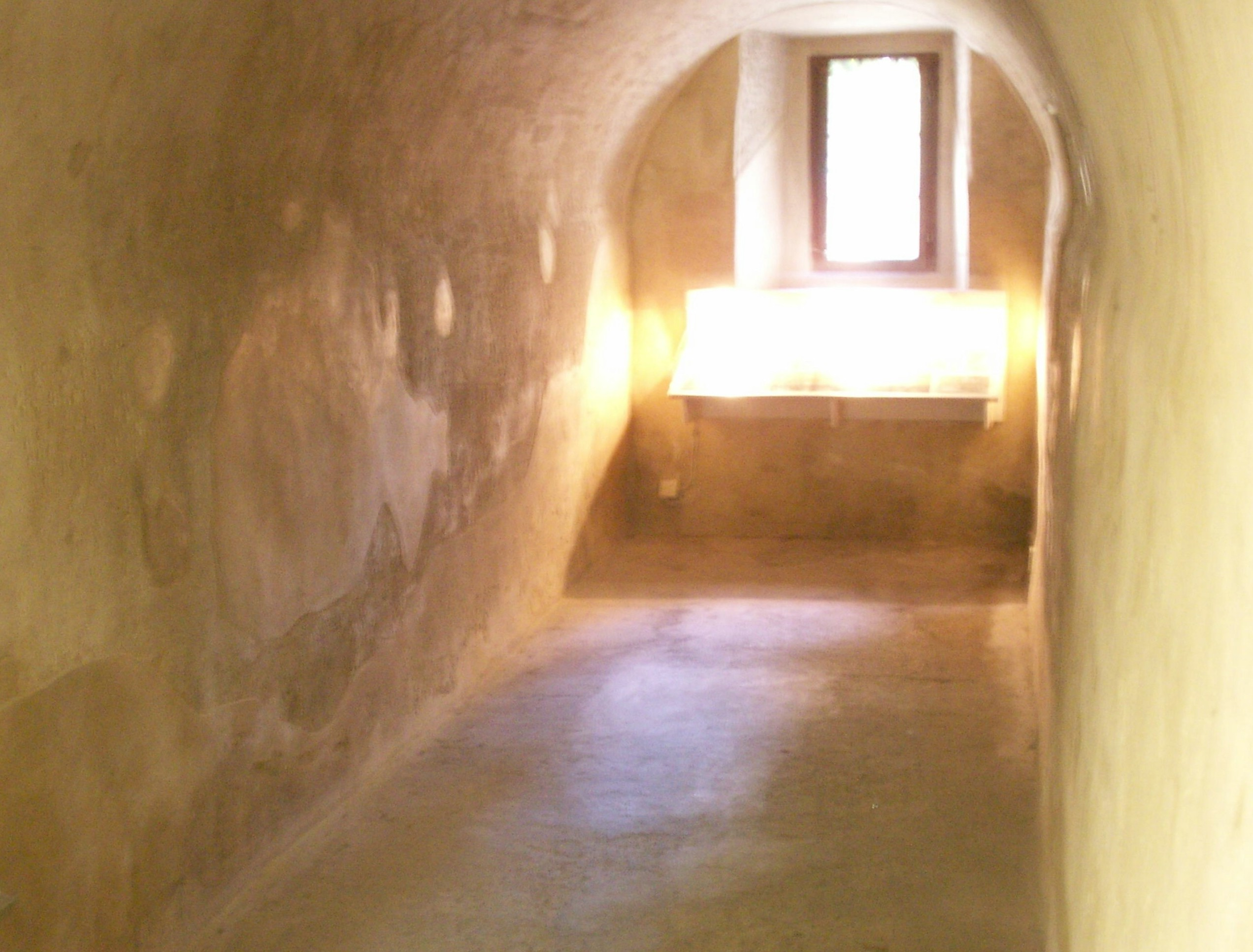 Dungeon in the monestry of Millstatt / district Spittal an der Drau in Carinthia / Austria / EU.